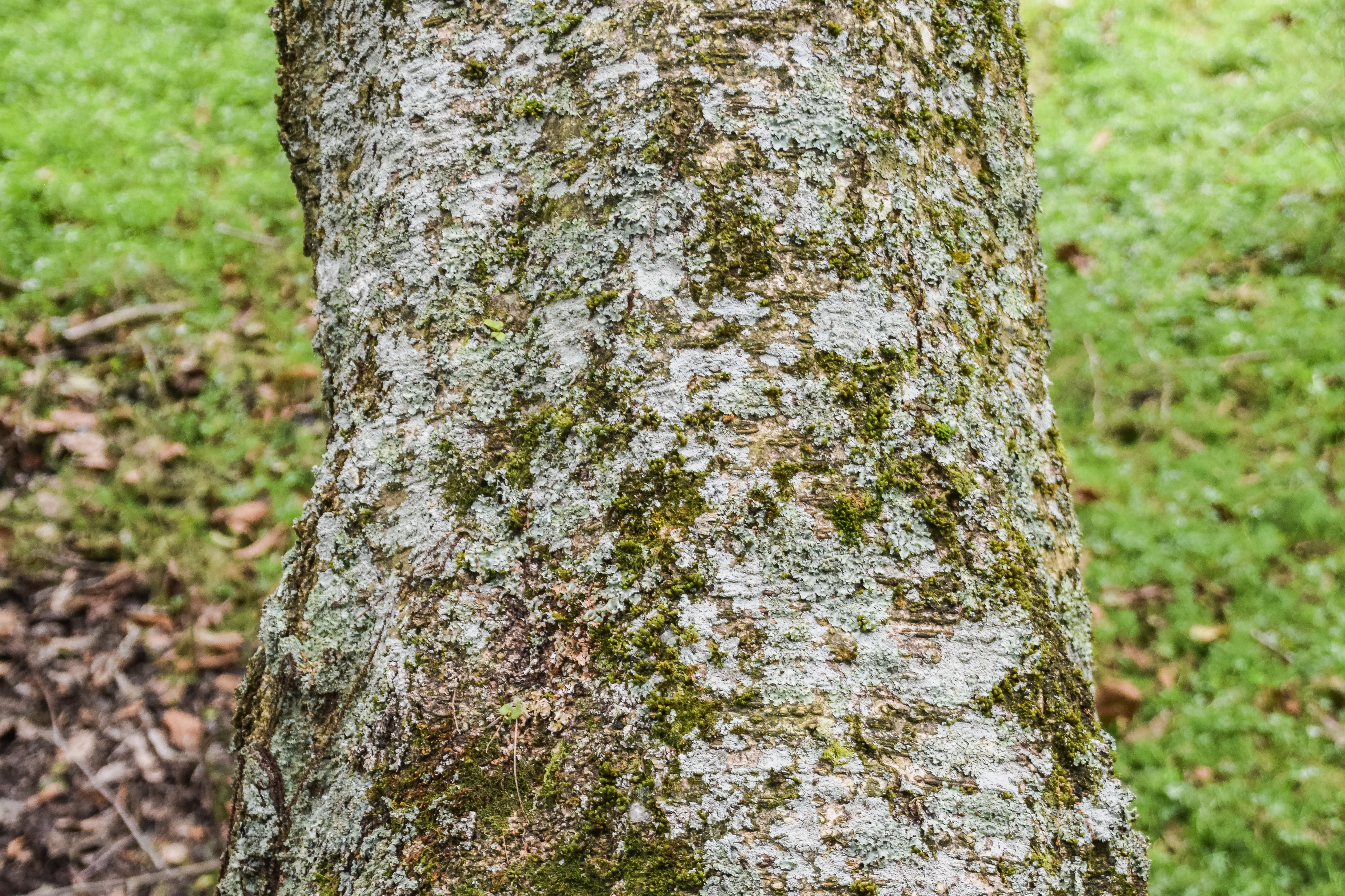 Bark of Alnus nepalensis in Hackfalls Arboretum, Gisborne Region, New Zealand